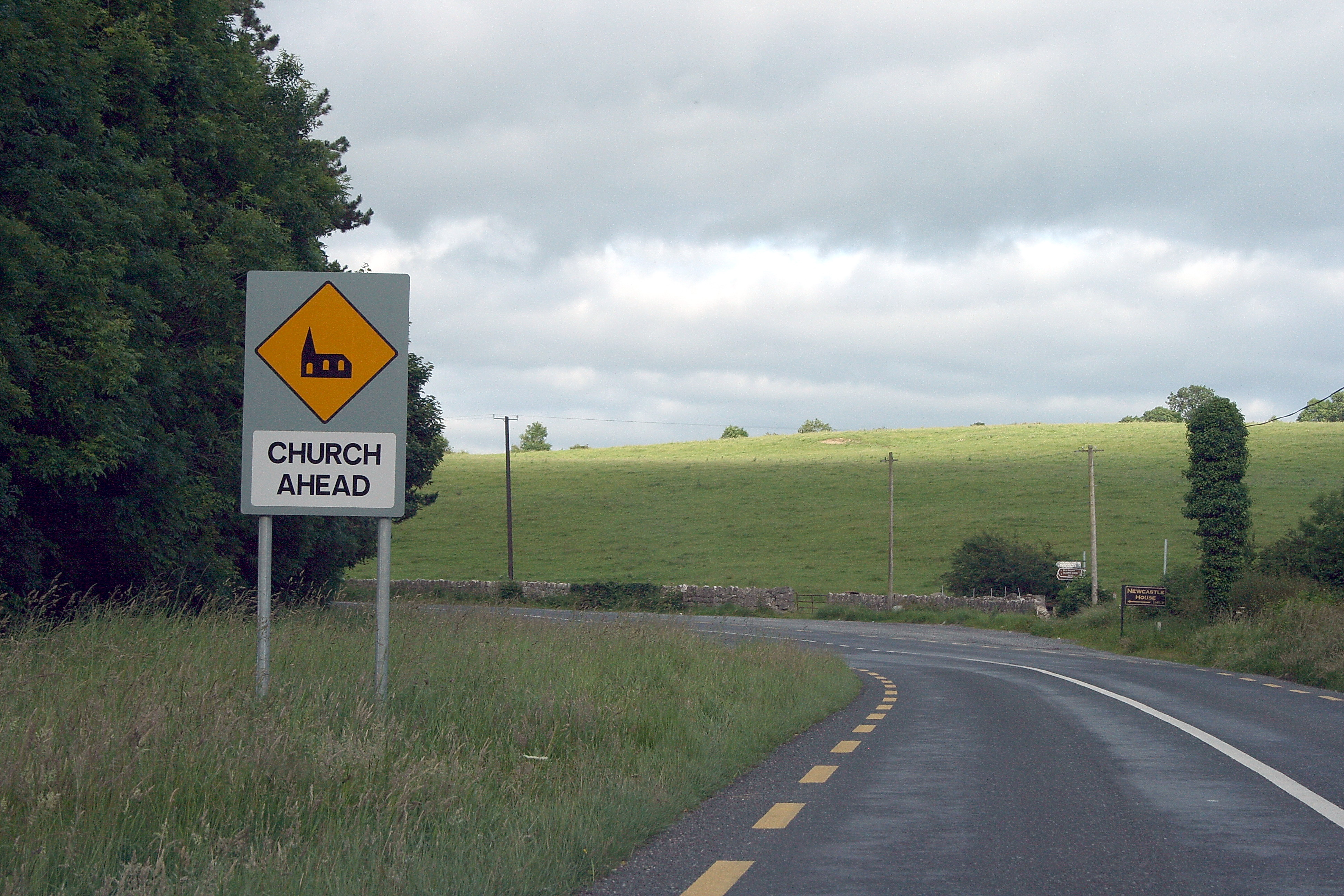 R392 near Ballymahon, County Longford - church at Forgney